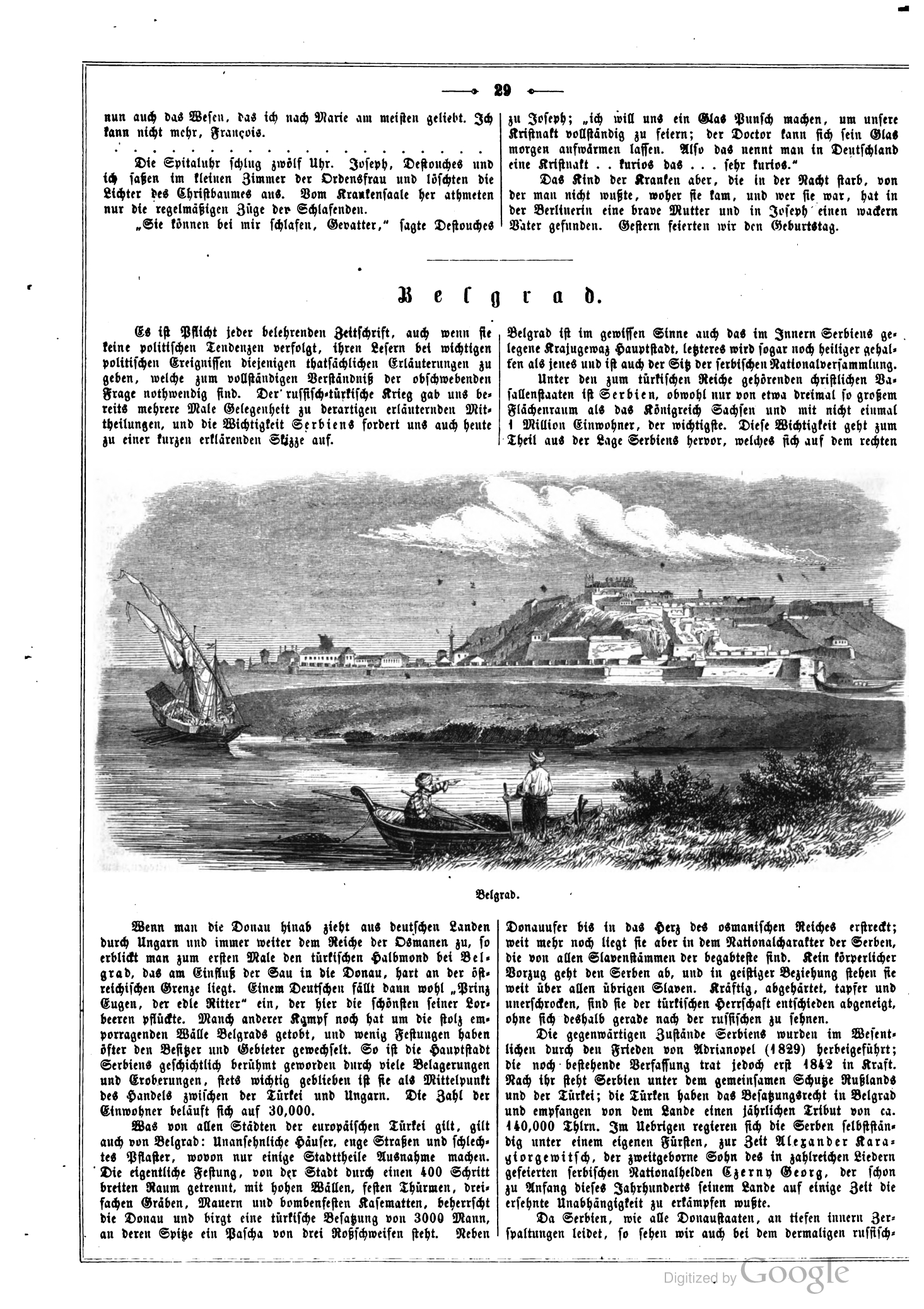 Page 29 from journal Die Gartenlaube for 1854. Extracted image (if any): File:Die Gartenlaube (1854) b 029.jpg - hi res, ~2.5 MB.